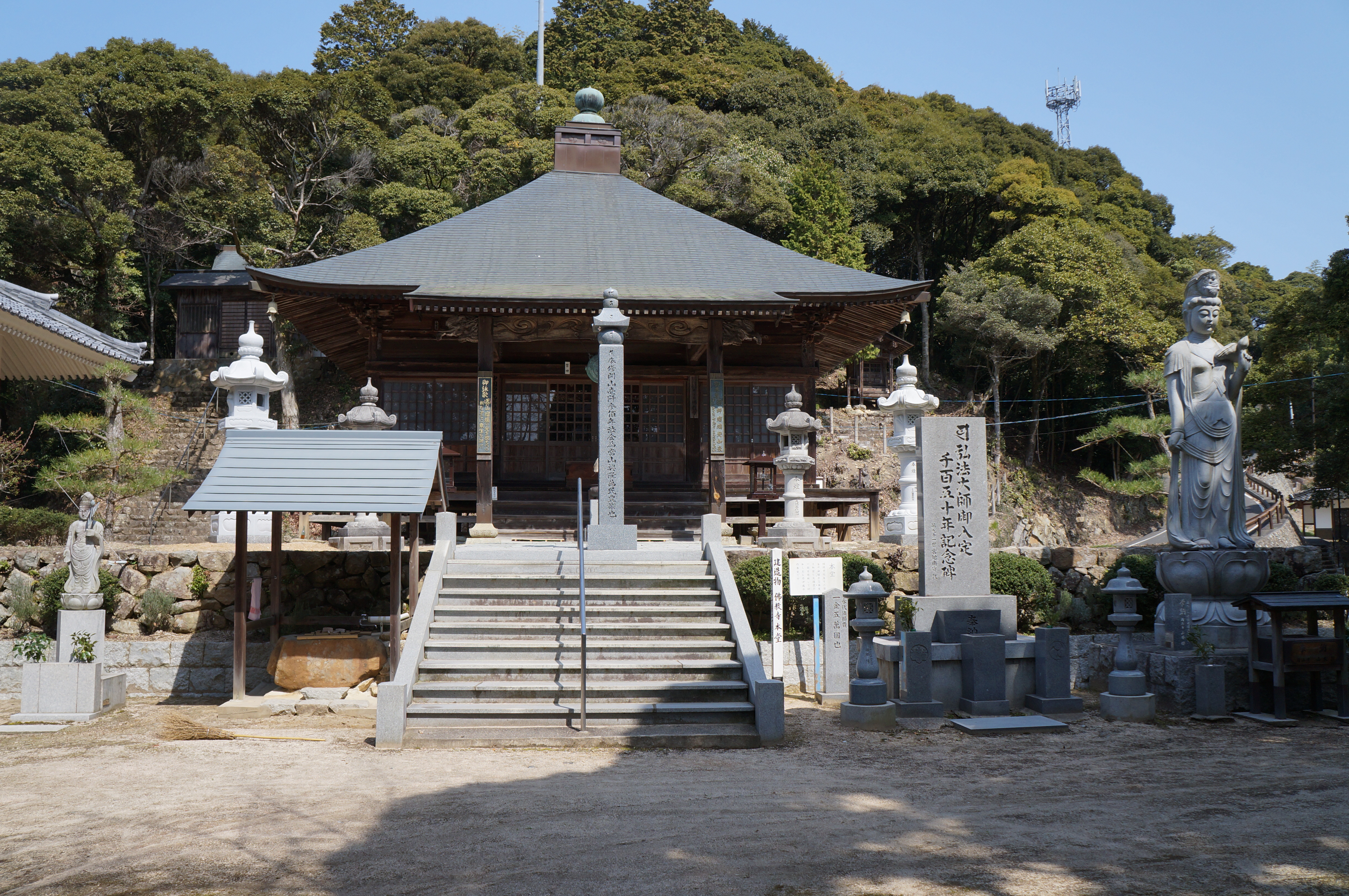 Main haii, Bukkyō-ji